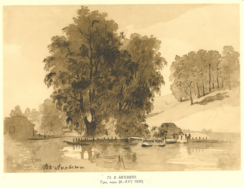 Painting of Taras Shevchenko